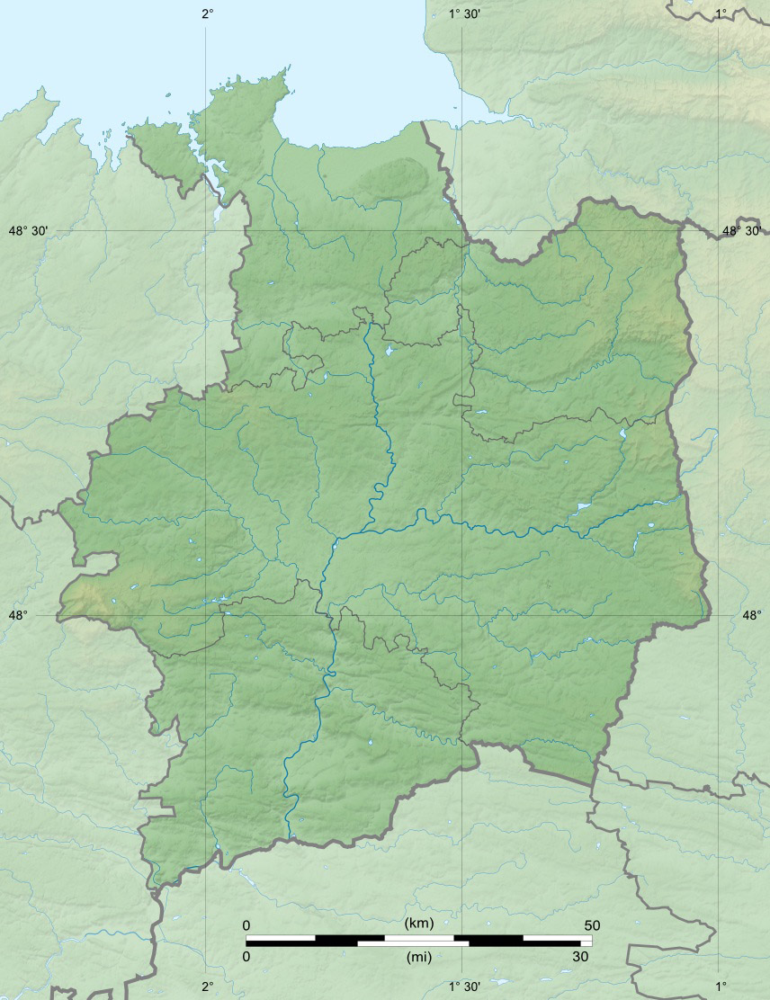 Blank physical map of the department of Ille-et-Vilaine, France, for geo-location purpose, with distinct boundaries for regions, departments and arrondissements.